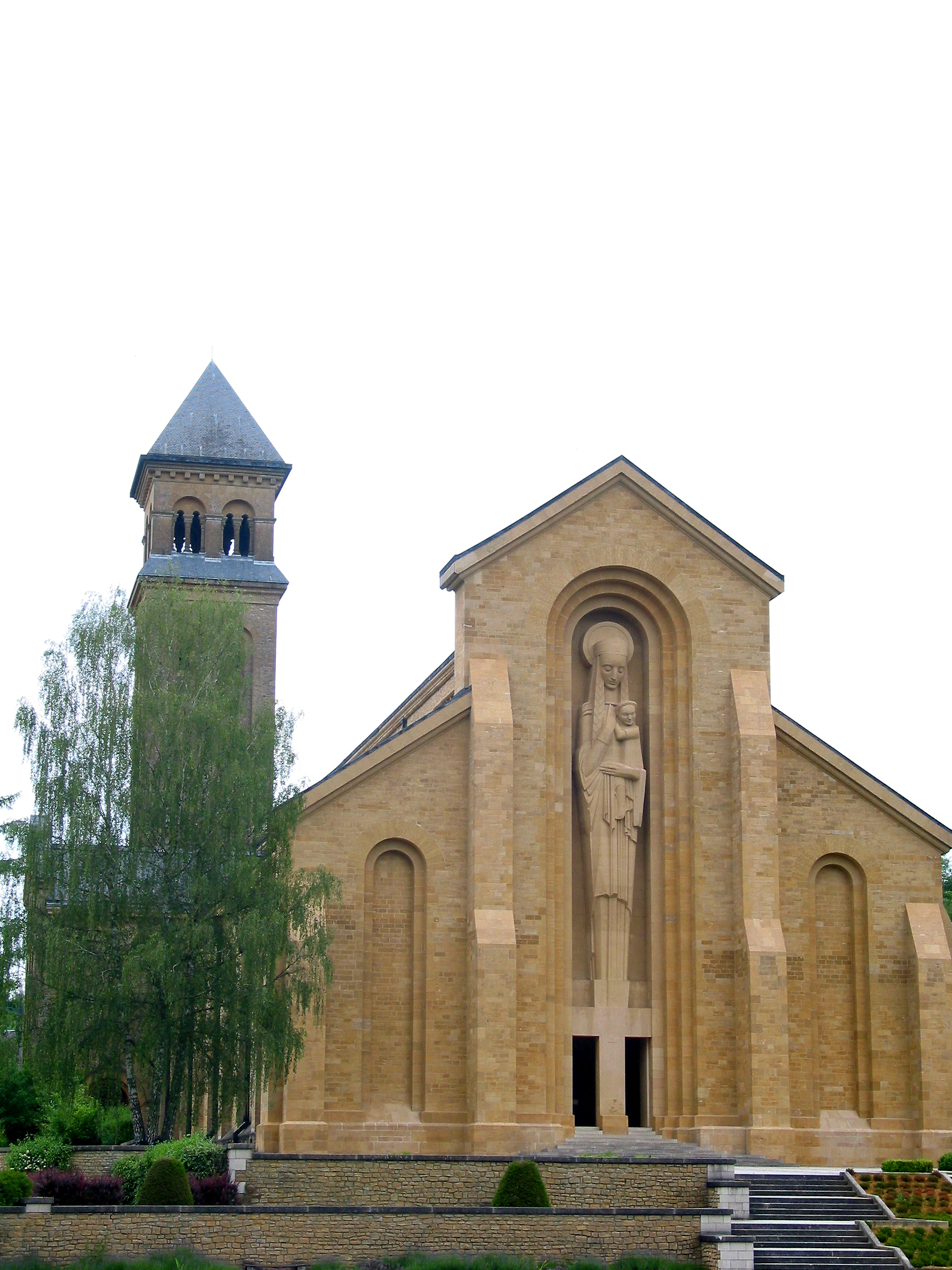 Villers-devant-Orval (Belgium), the new abbey church (1948).